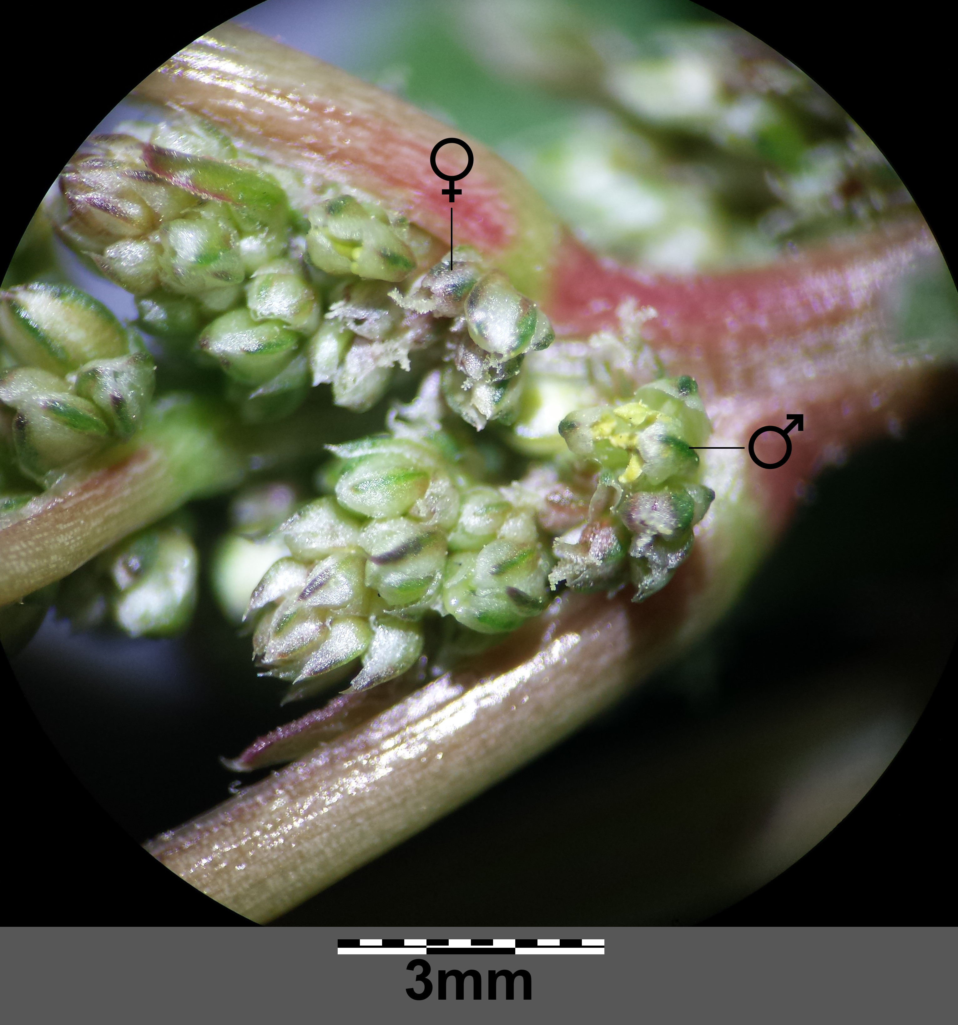 Inflorescence with female and male flowers Taxonym: Amaranthus blitum subsp. blitum ss Fischer et al. EfÖLS 2008 ISBN 978-3-85474-187-9 Location: Haidschüttgasse, Vienna-Floridsdorf - ca. 160 m a.s.l. Habitat: ruderal area